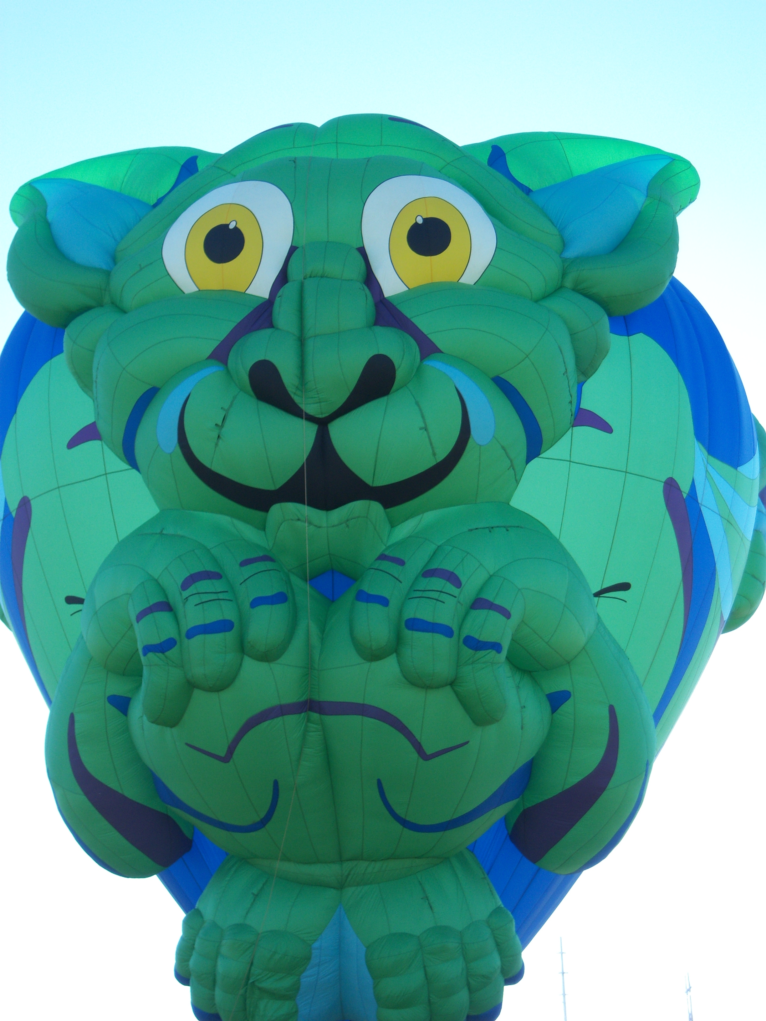 Big Green Cat, 2007 Fiesta.